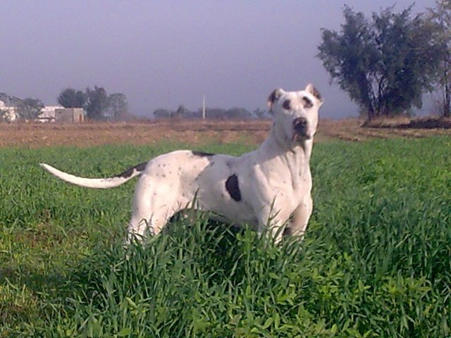 Bully Kutta in rural Pakistan